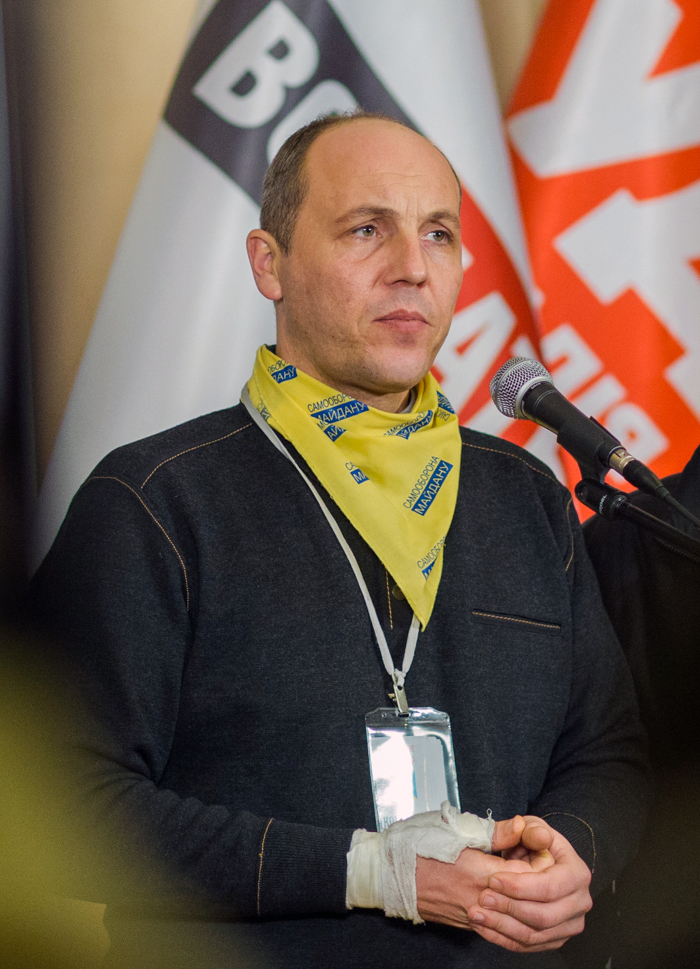 Andriy Parubiy